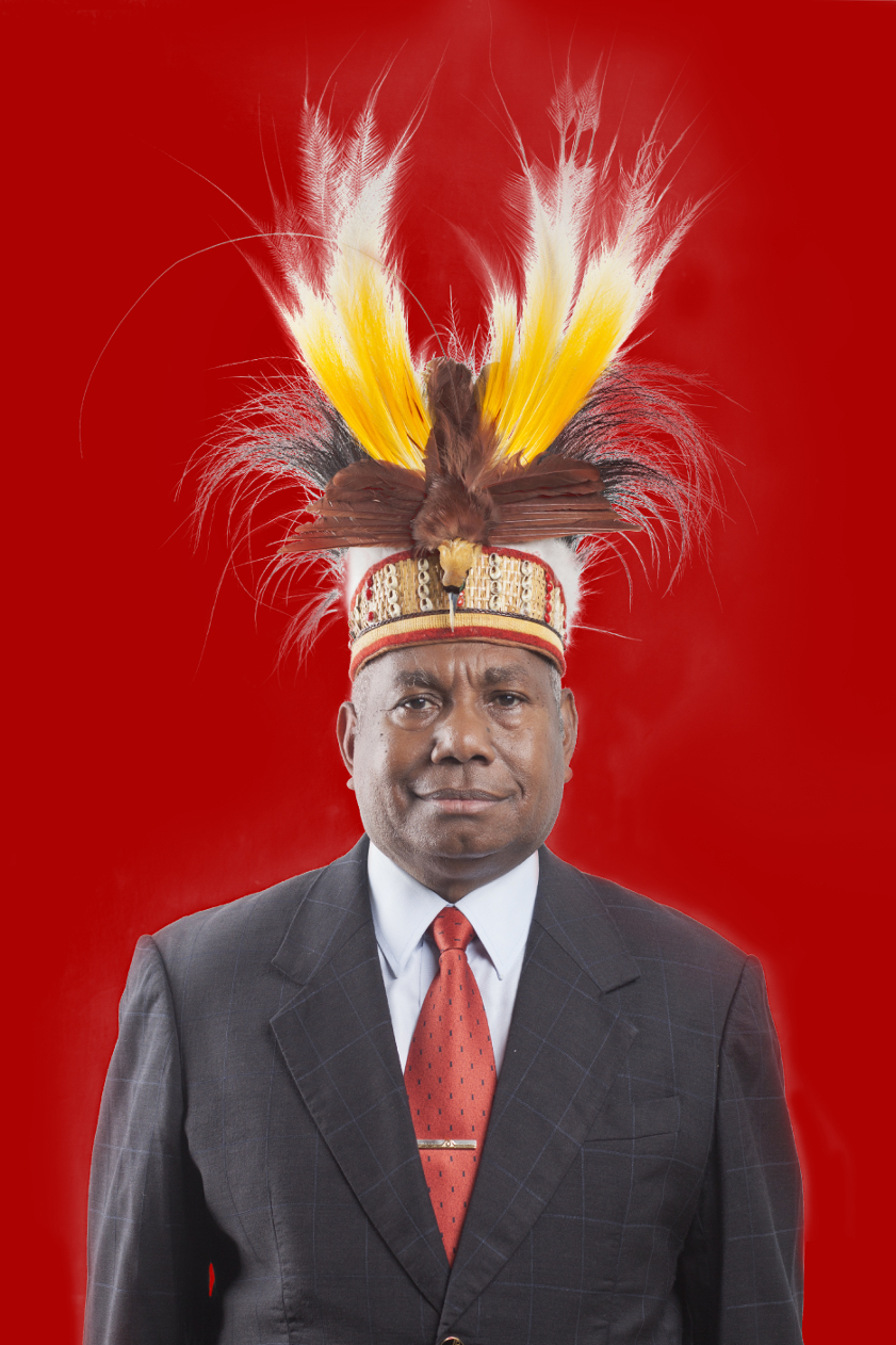 DRS. DOMINGGUS MANDACAN GUBERNUR PAPUA BARAT 2017